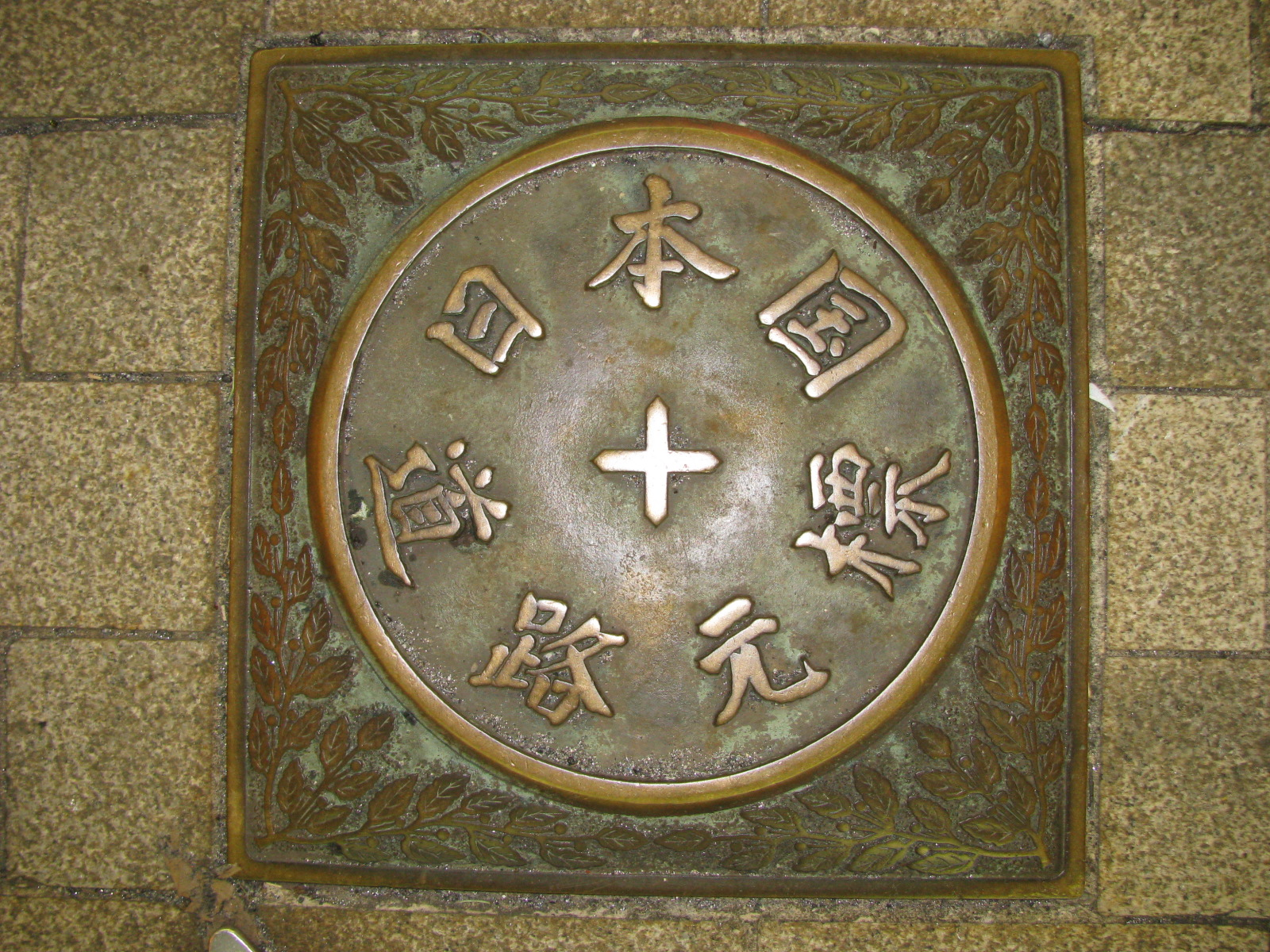 The Kilometre Zero of road in Japan is on the middle of Nihonbashi (Nihon-bridge). This place is Chuo, Tokyo.